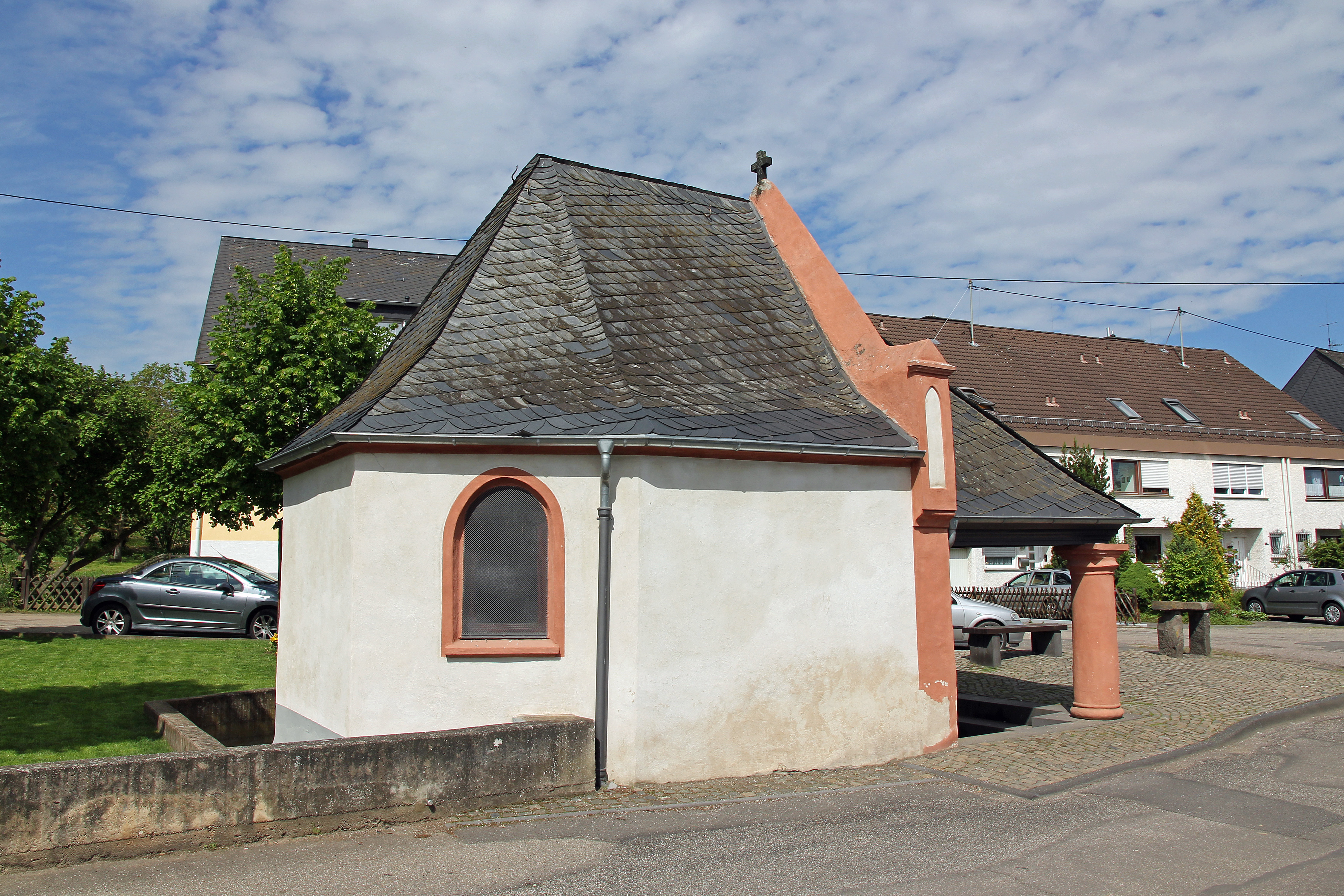 Großheiligenhäuschen in Koblenz